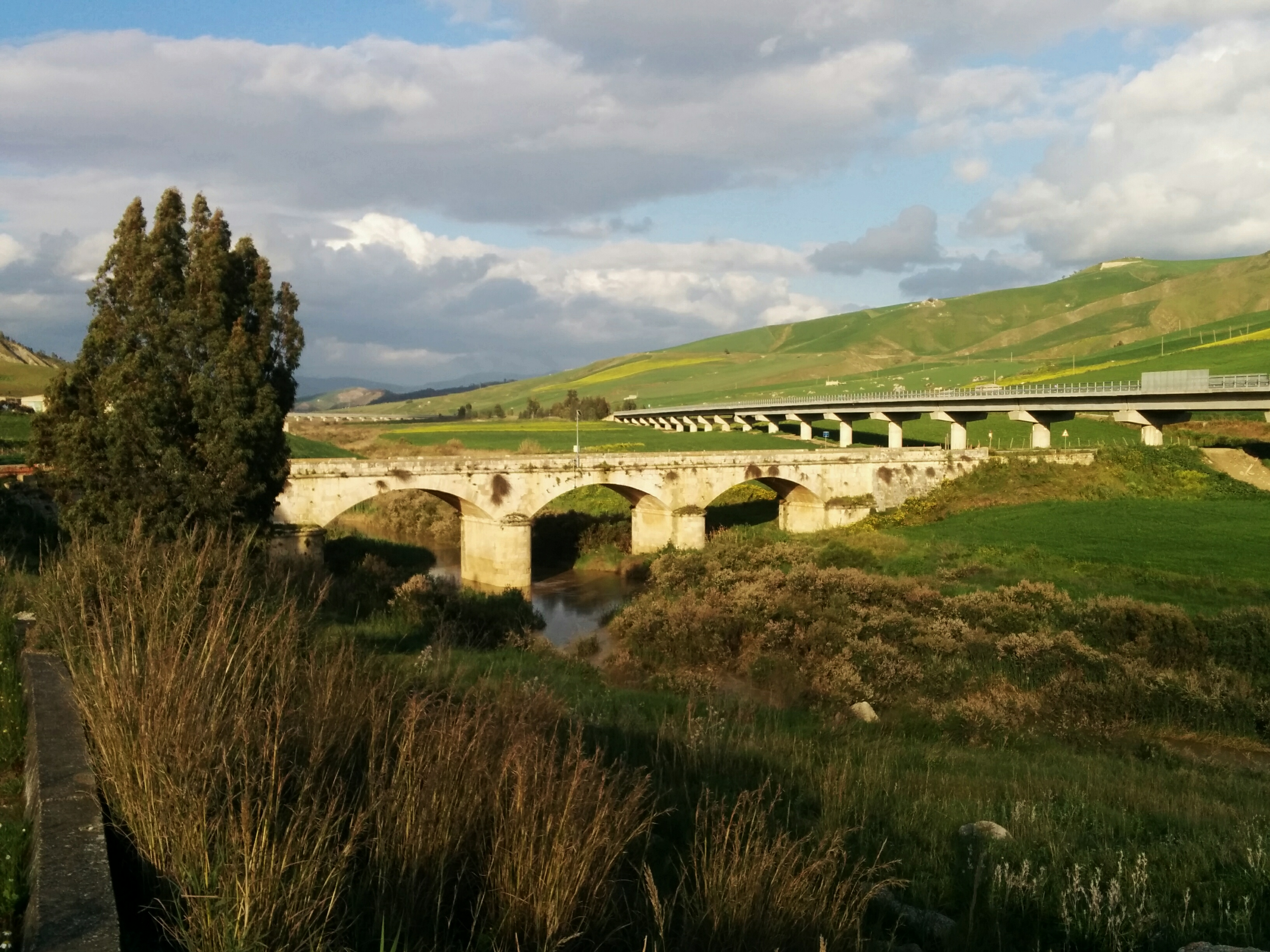 Besaro bridge, over Imera Meridionale river, at the border between the province of Caltanissetta (on the left) and the province of Enna (on the right), in Sicily, Italy. In the background, the Besaro viaduct of the National Road 626 "della Valle del Salso".